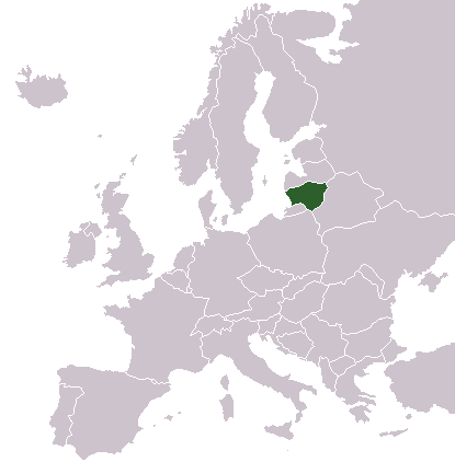 Location of Lithuania in Europe.